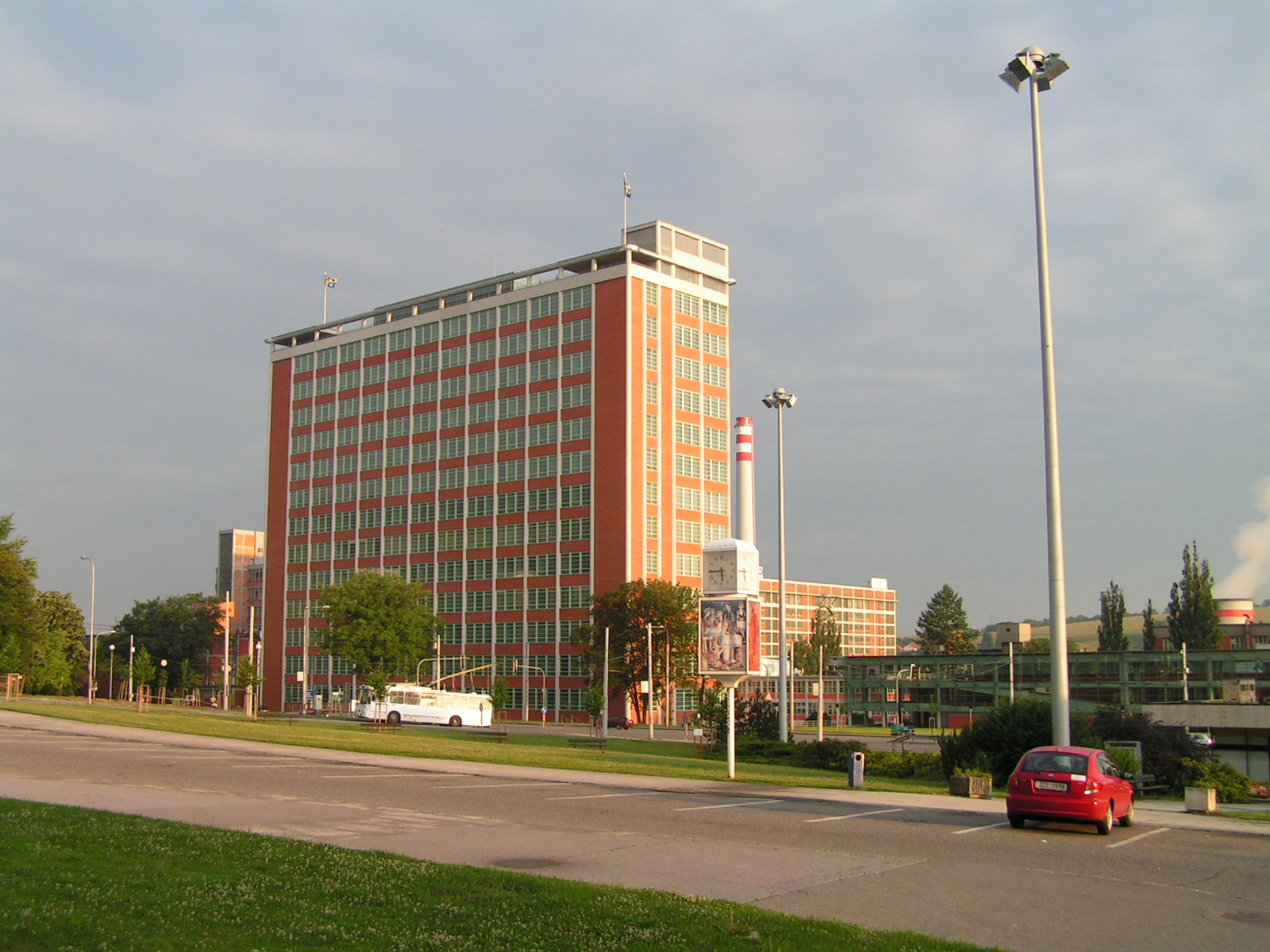 Zlín, 21st building in budova in area Svit.